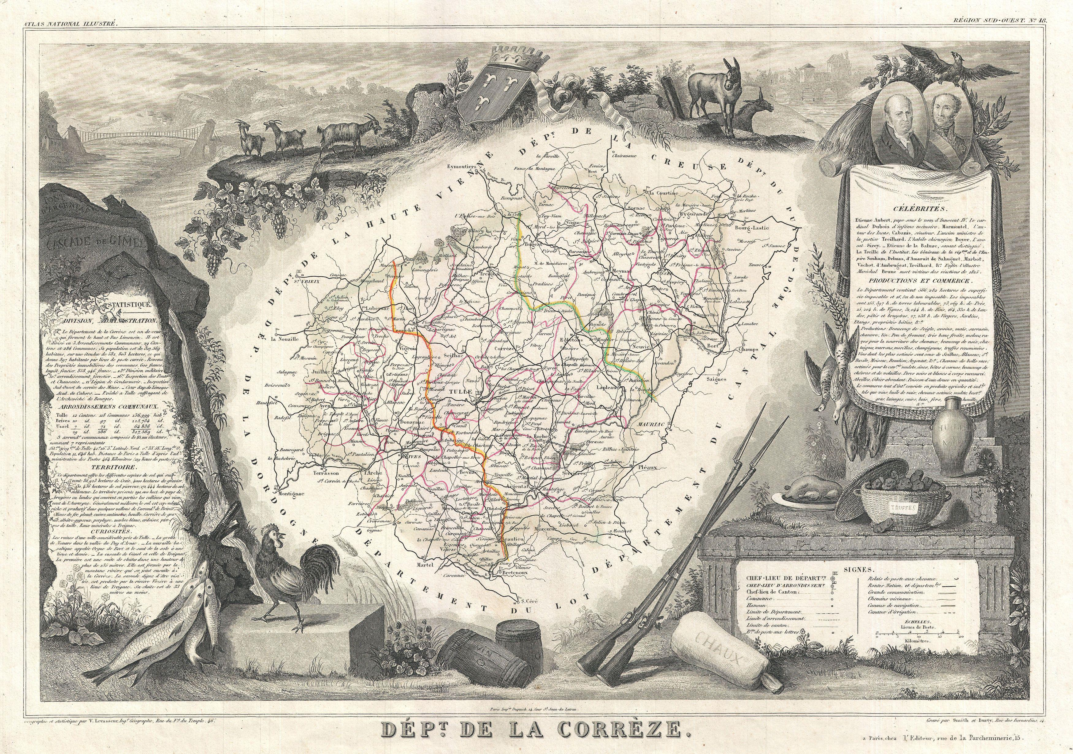 This is a fascinating 1857 map of the French department of Correze, France. This area of France is known for its production of Straw Wine, a sweet red or white wine. The whole is surrounded by elaborate decorative engravings designed to illustrate both the natural beauty and trade richness of the land. There is a short textual history of the regions depicted on both the left and right sides of the map. Published by V. Levasseur in the 1852 edition of his Atlas National de la France Illustree.